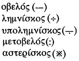 Aristarx symbols